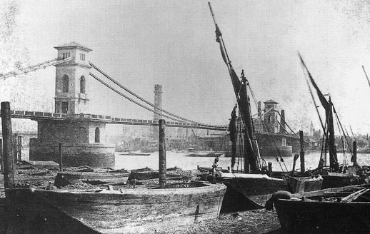 The Hungerford Suspension bridge, designed by Isambard Kingdom Brunel